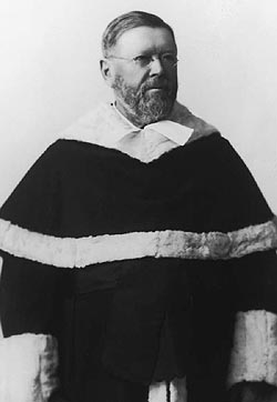 Iddington, J. Judge